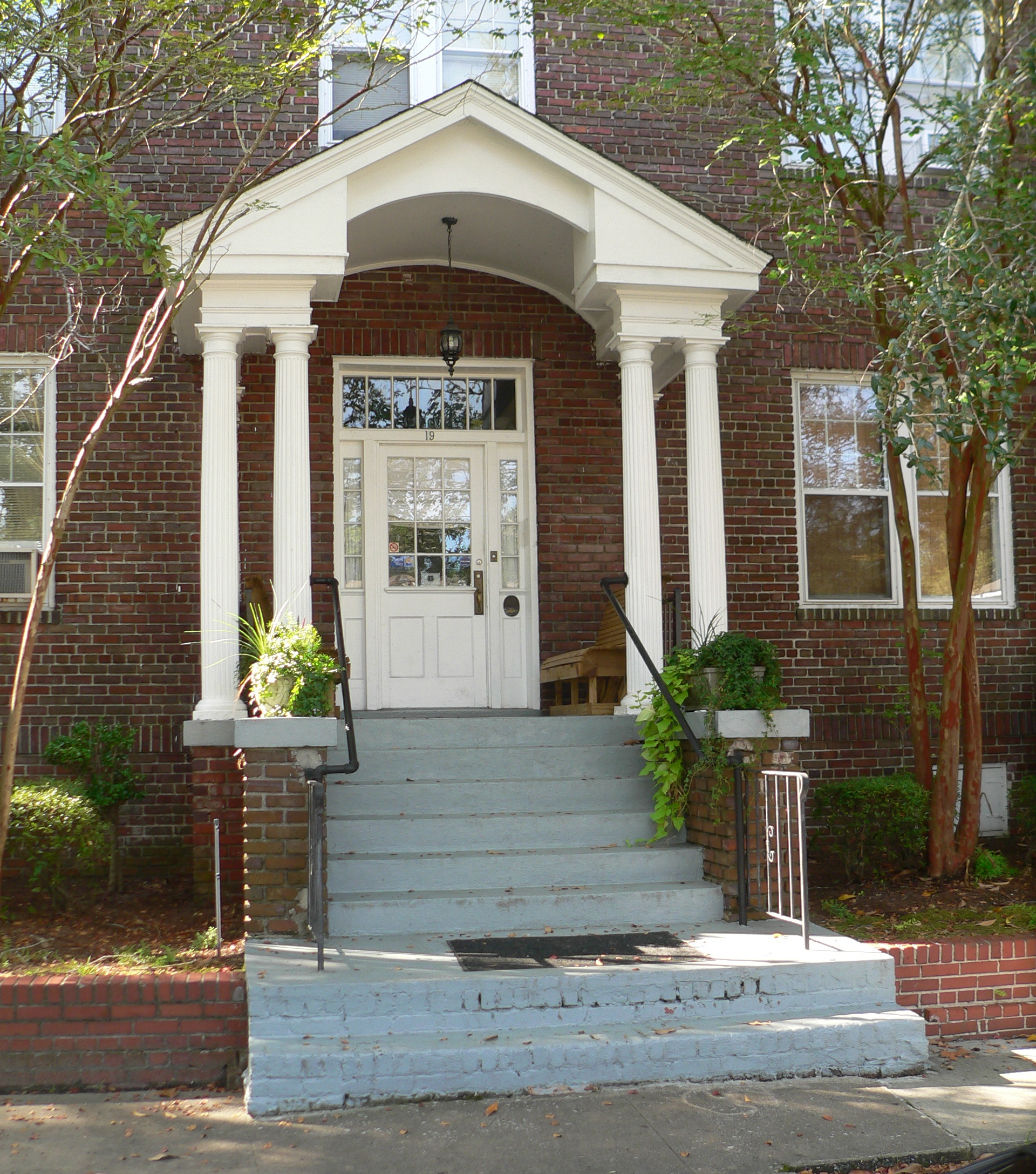 Front entrance of Florence Crittenton Home, located at 19 St. Margaret Street in Charleston, South Carolina. The building is listed in the National Register of Historic Places.